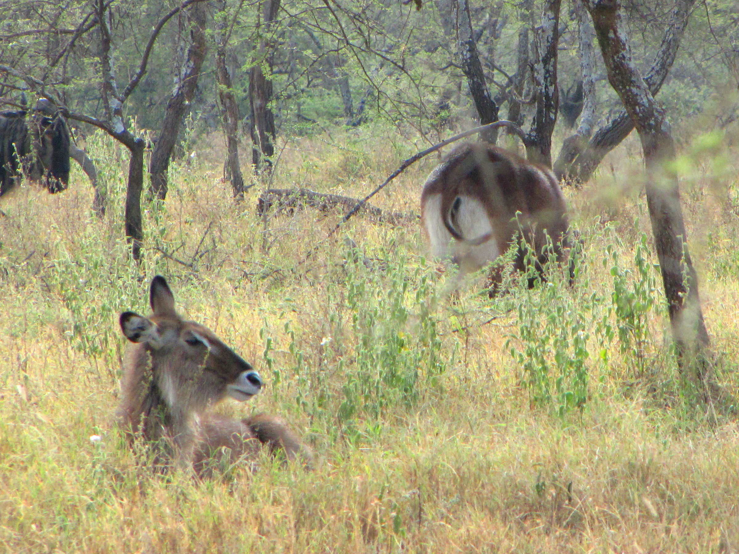 Defassa Waterbucks (Kobus ellipsiprymnus defassa), females, Serengeti National Park, Tanzania